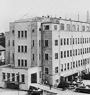 Chiba Prefectural Police Department Building